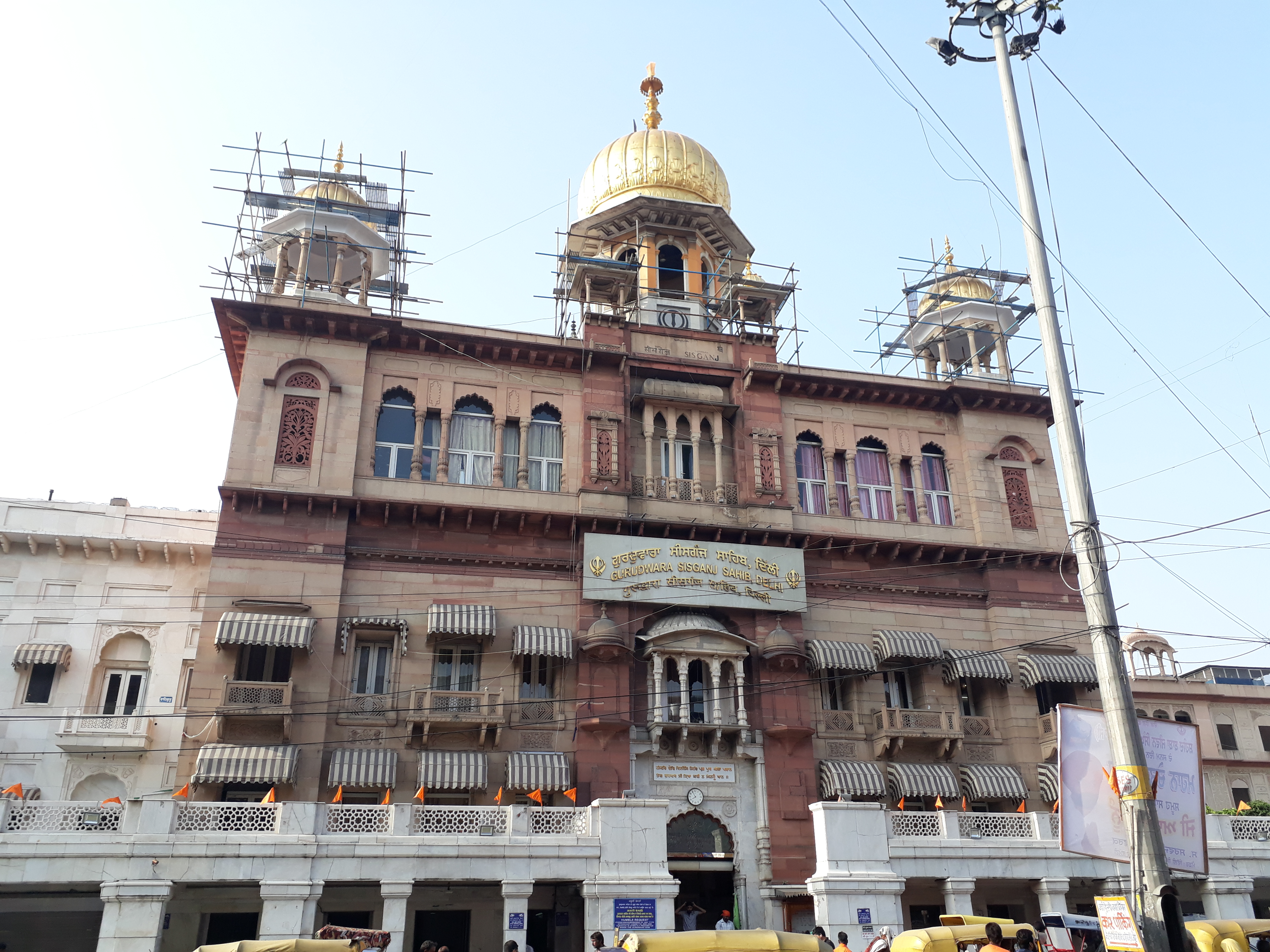 The historical Sis Ganj Gurudwara near Chandni Chwak in Old Delhi. This was established in 1783.